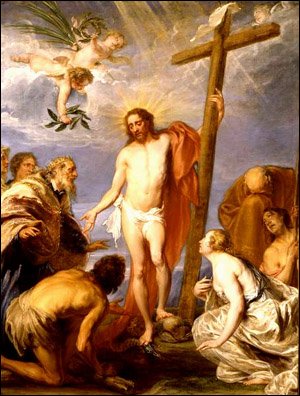 The Triumphant Christ Forgiving Repentant Sinners